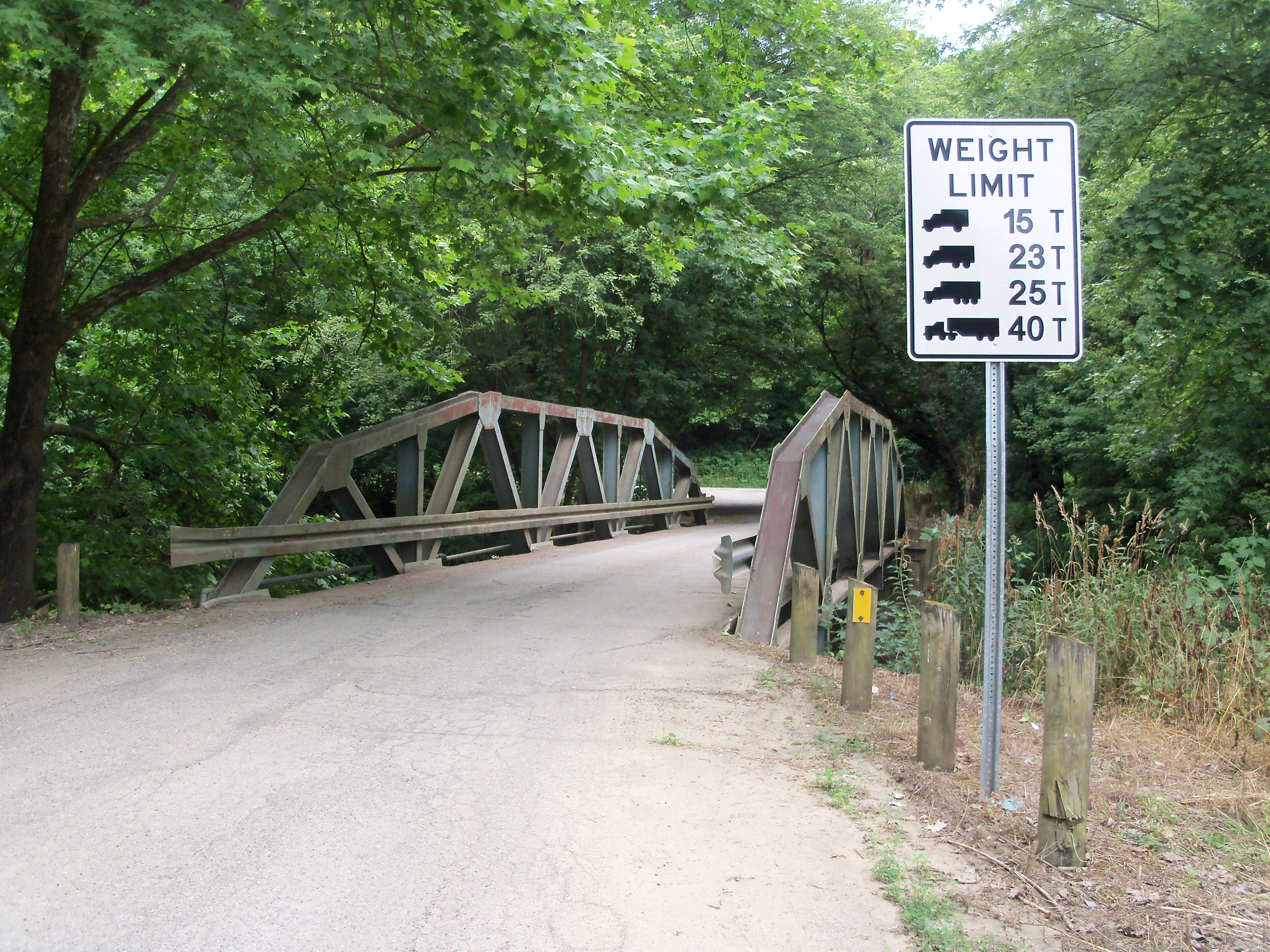 This pony truss bridge carries Road # 91 over Killbuck Creek just east of Killbuck, Ohio